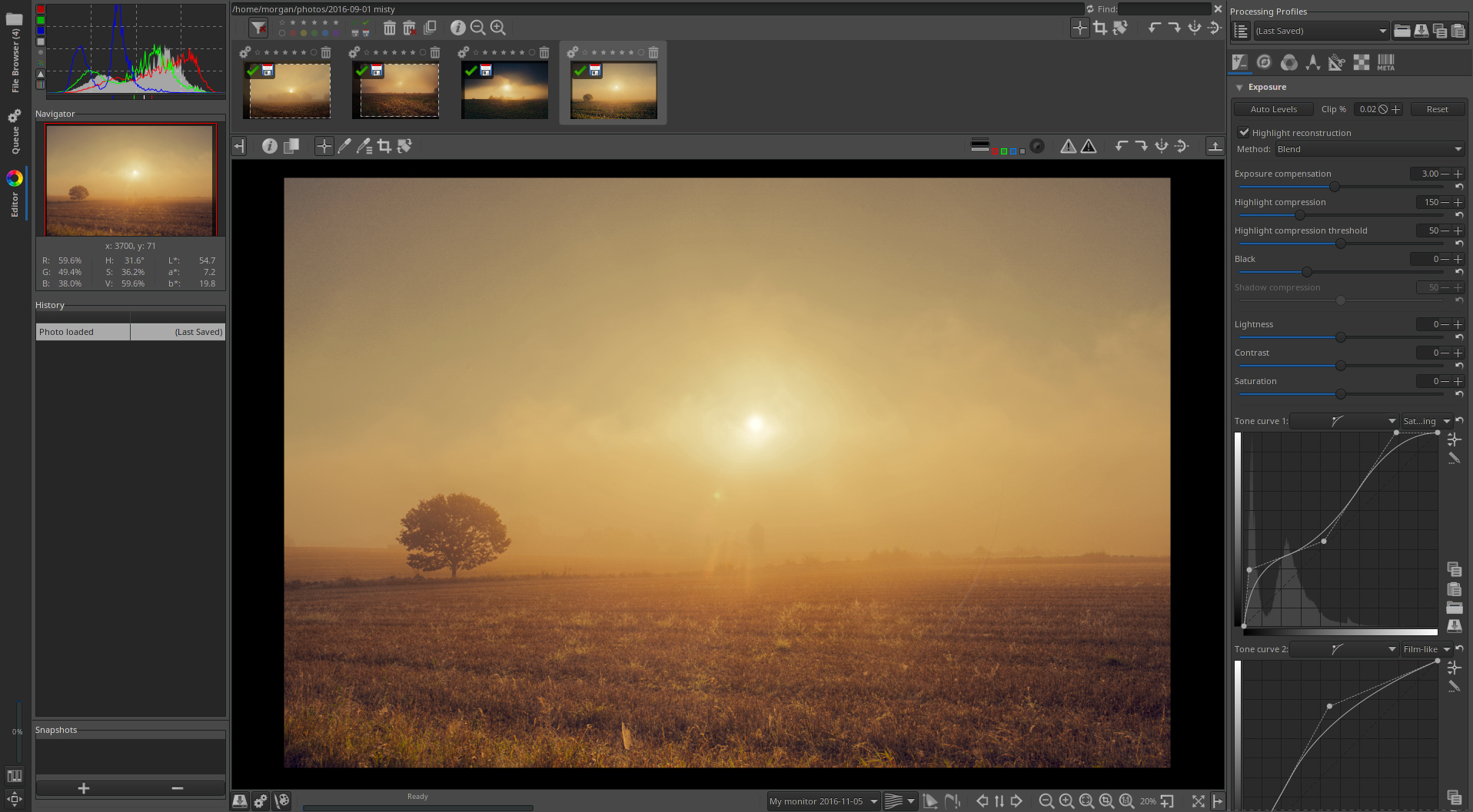 Screenshot of RawTherapee pre-5.0 editing a raw photo of a misty scene.